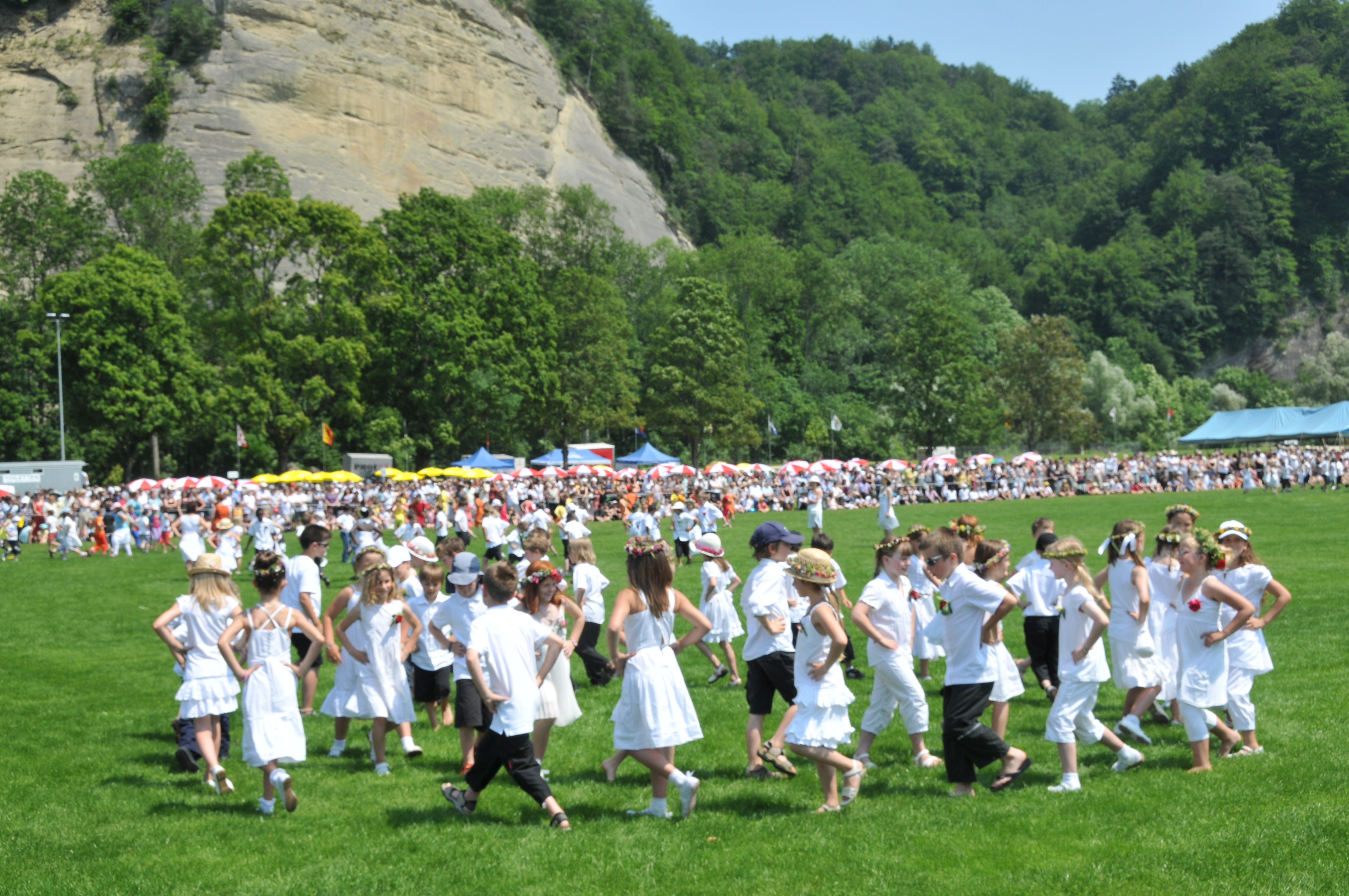 Solätte 2010